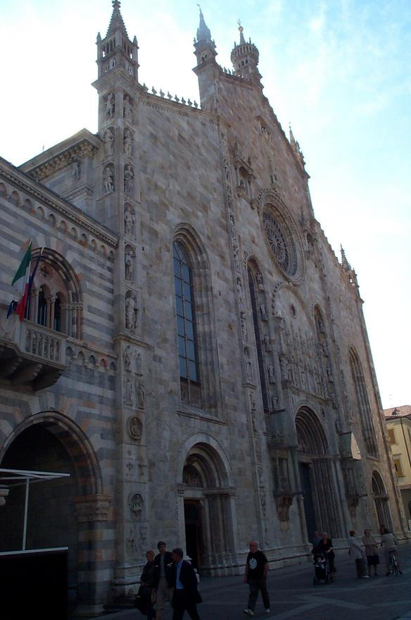 Duomo of Como